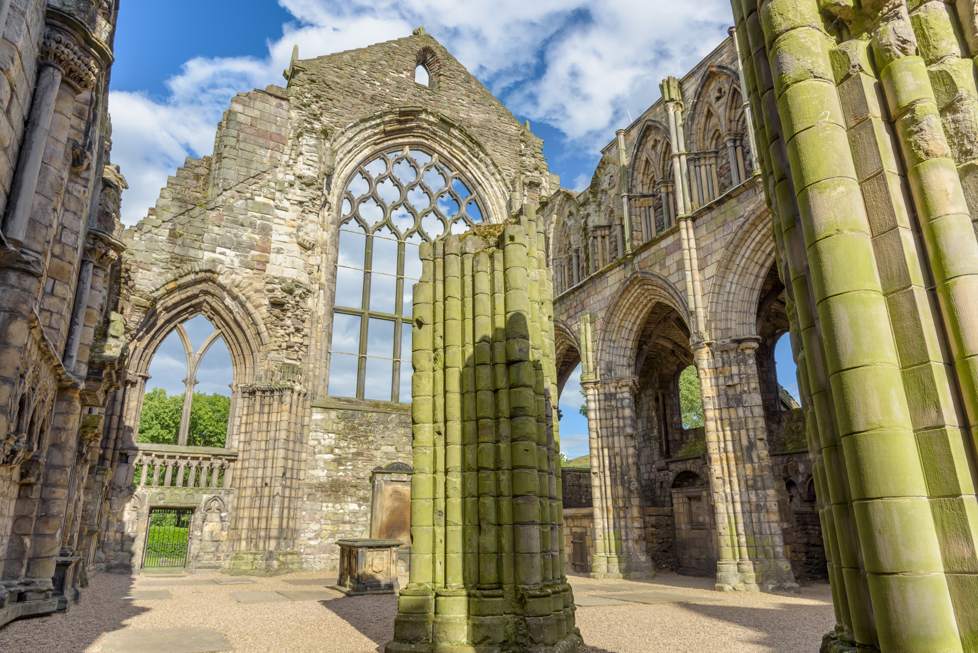 Ruins of Holyrood Abbey.